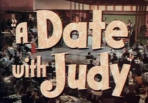 A Date with Judy -- trailer (cropped screenshot)